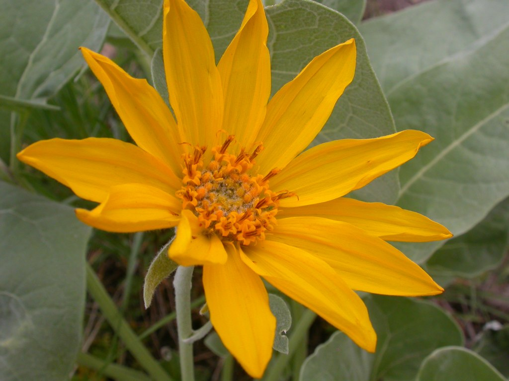 Balsamorhiza sagittata — Arrowleaf balsamroot. In Montana.